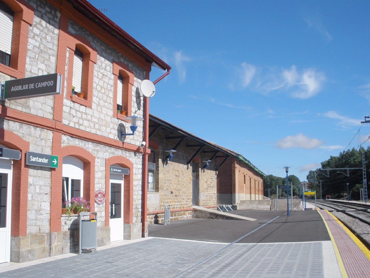 Estación de tren de Aguilar de Campoo (provincia de Palencia, Castilla y León), en el barrio de Camesa